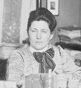 Lithuanian-born American physician Lydia Rabinowitsch-Kempner (1871–1935)